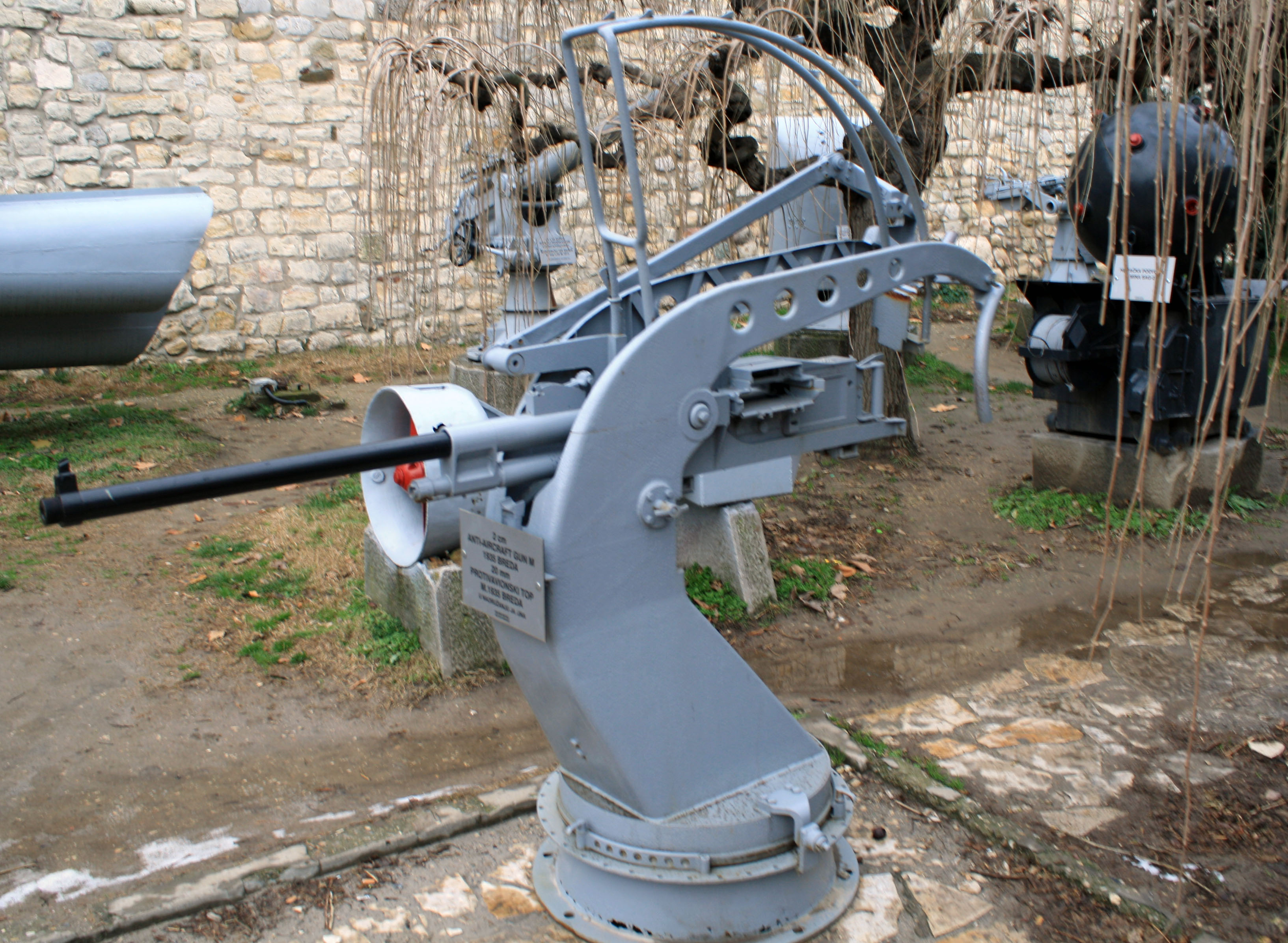 Breda 2cm anti-aricraft gun M.1938 used by Yugoslav People's Army, part of Belgrade Military Museum outer exhibition at Kalemegdan fortres. Unknown